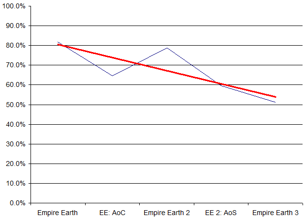 Graph showing average reviews of each game from the Empire Earth (series)